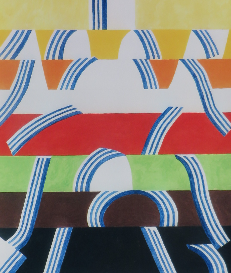 Painting honoring Mother Teresa by Swiss artist Alfons Weisser